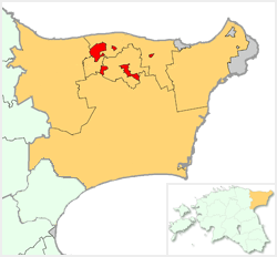 Location map of Kohtla-Järve town, Estonia. This image was created by Senzeichi.